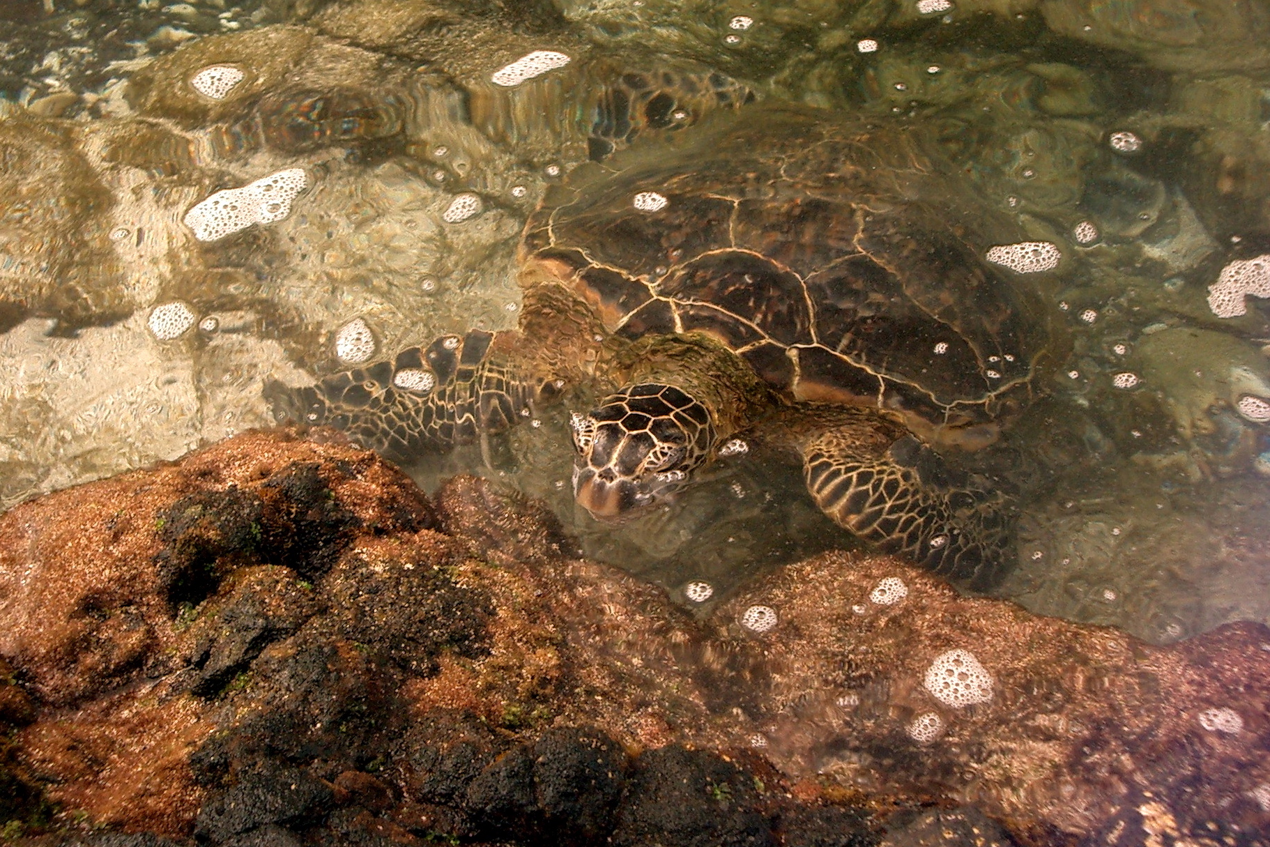 Sea turtles in the volcanic pools of Kona.Turtle Dude